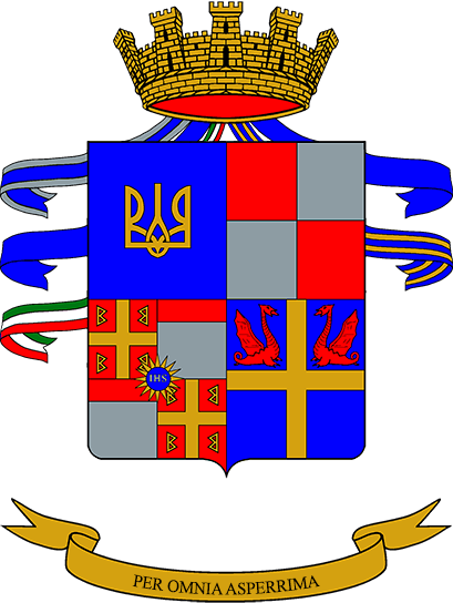 Coat of Arms of the 2° (Mountain) Engineer Regiment; Italian Army.